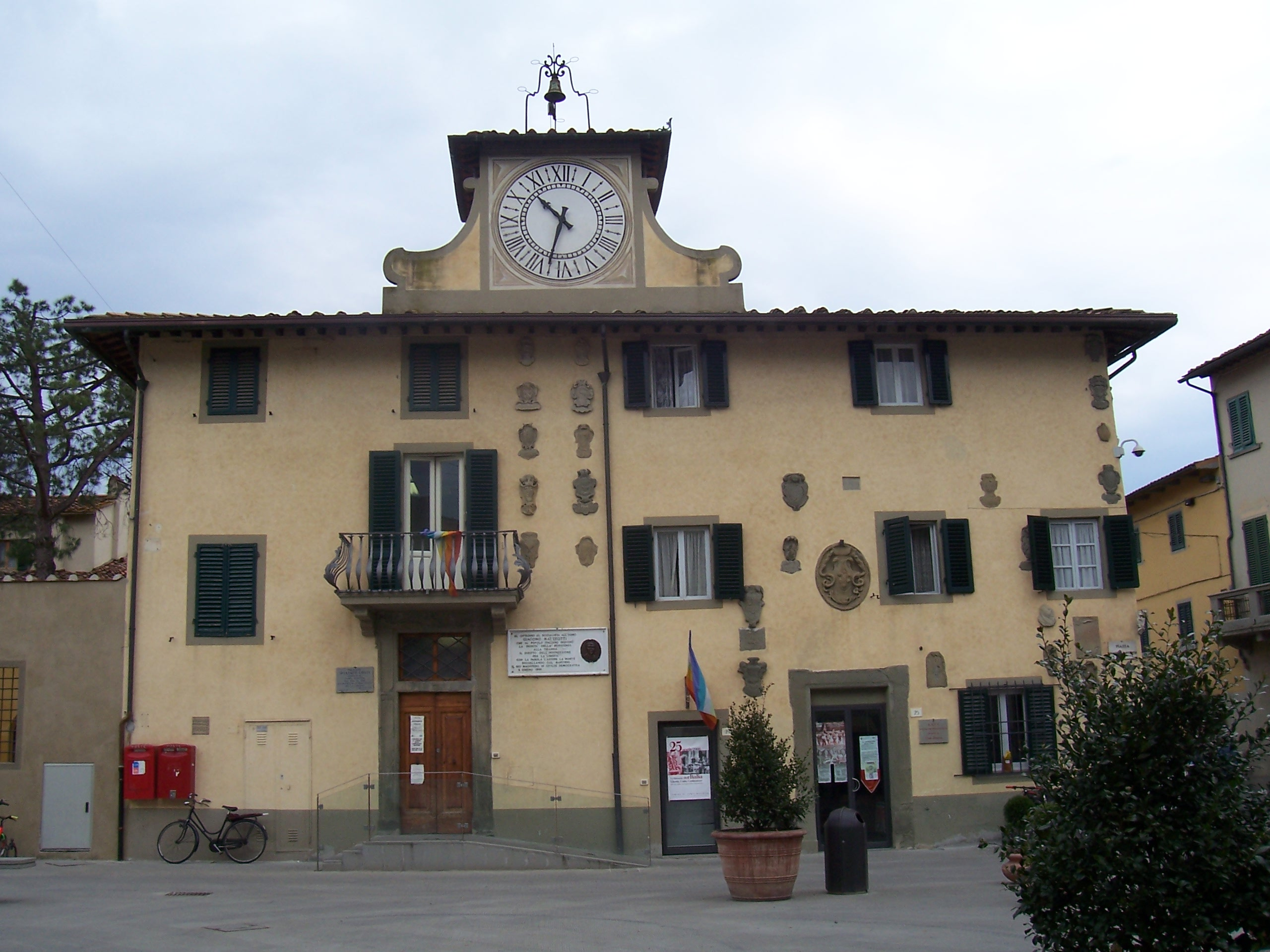 Campi Bisenzio (province of Florence, Tuscany, Italy): Palazzo Spartaco Conti